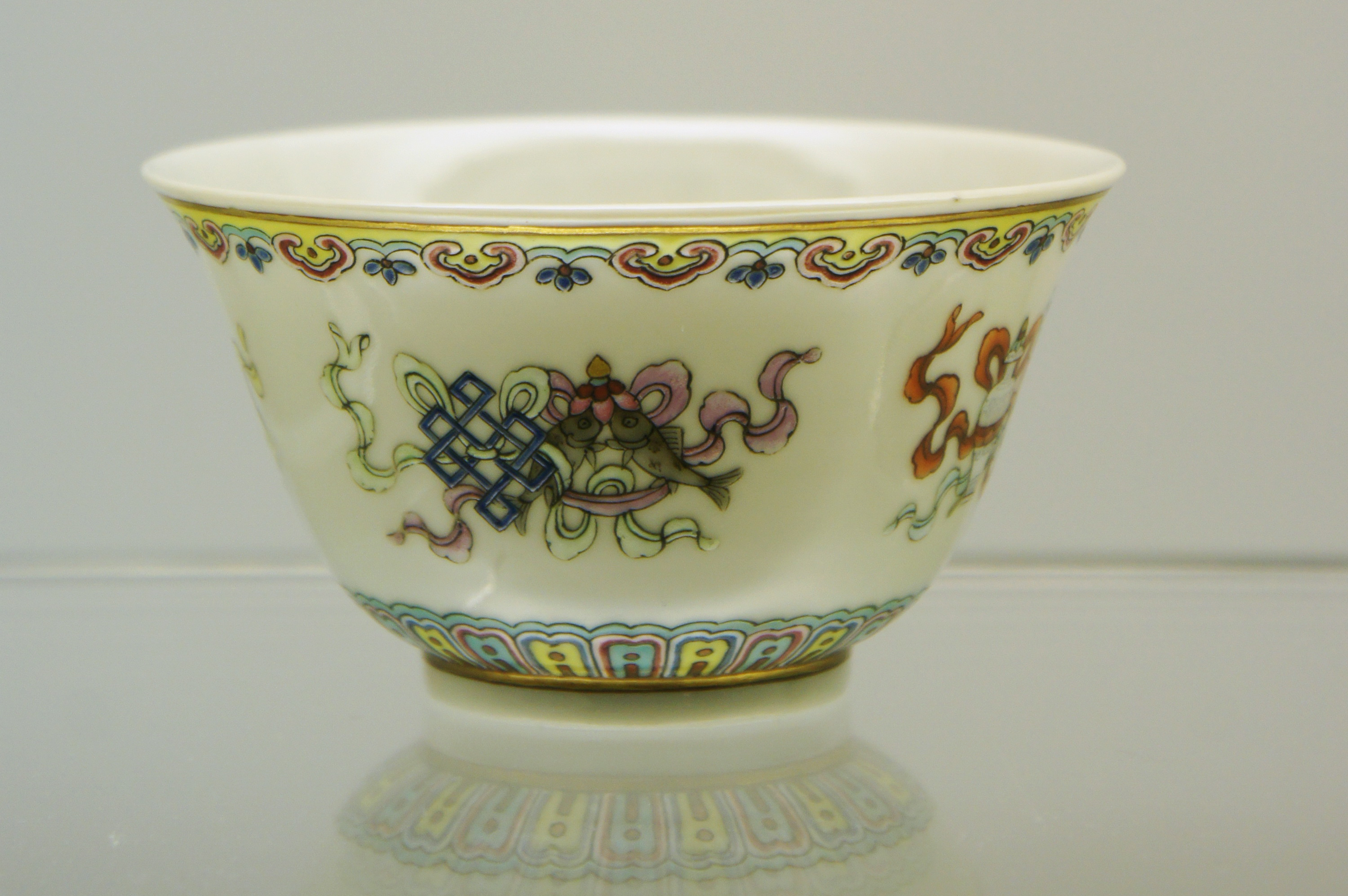 Bowls with design of the Eight Buddhist Emblems in fencai enamels (Hong Kong Museum of Art Collection)